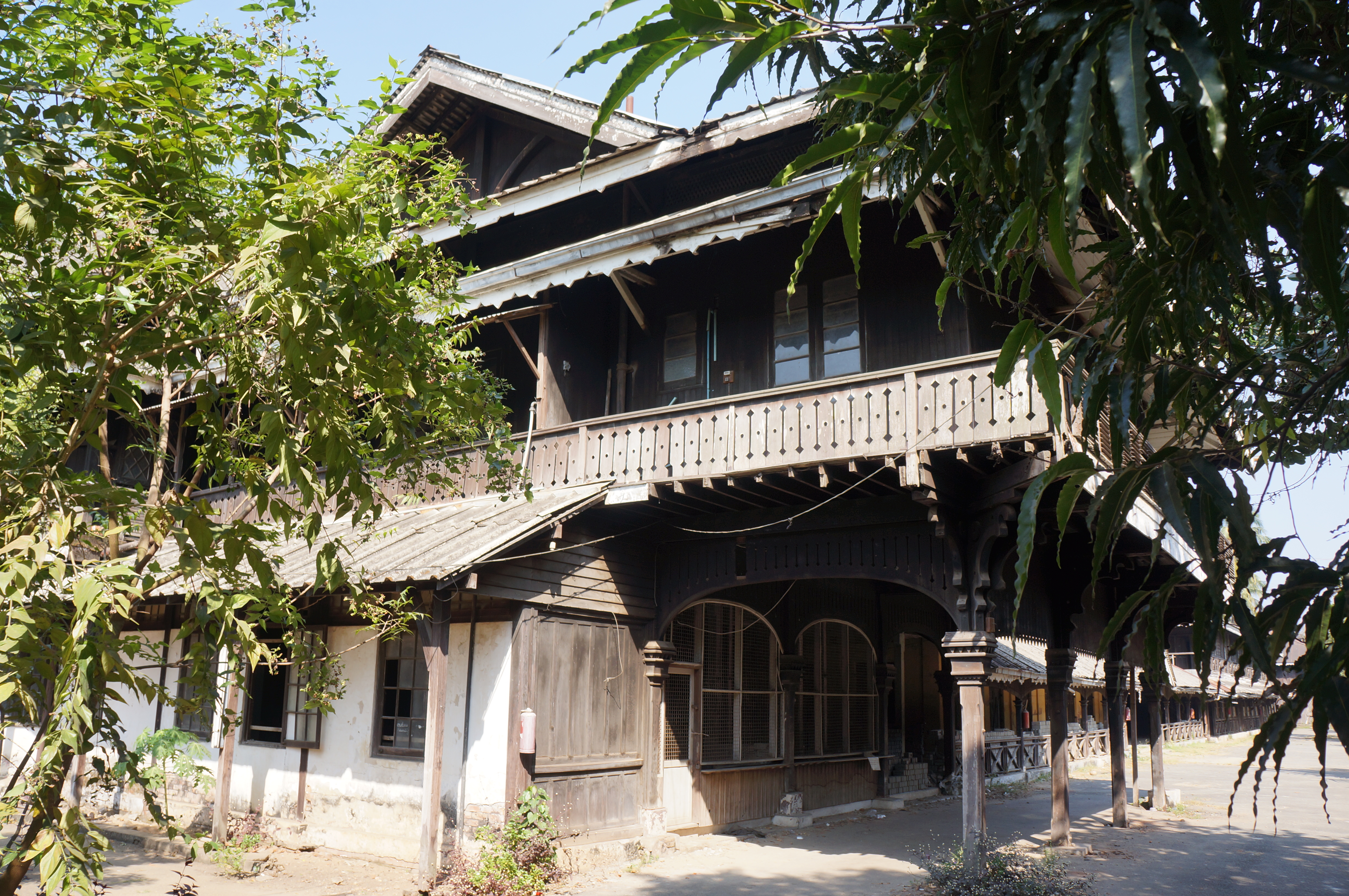 The former Pegu Club in Yangon, currently abandoned and in a state of disrepair.